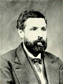 Cyrus Clay Carpenter (1829-1898) served in the Iowa House of Representatives 1858 and from 1884 to 1886 and Governor of Iowa from 1872 to 1876.